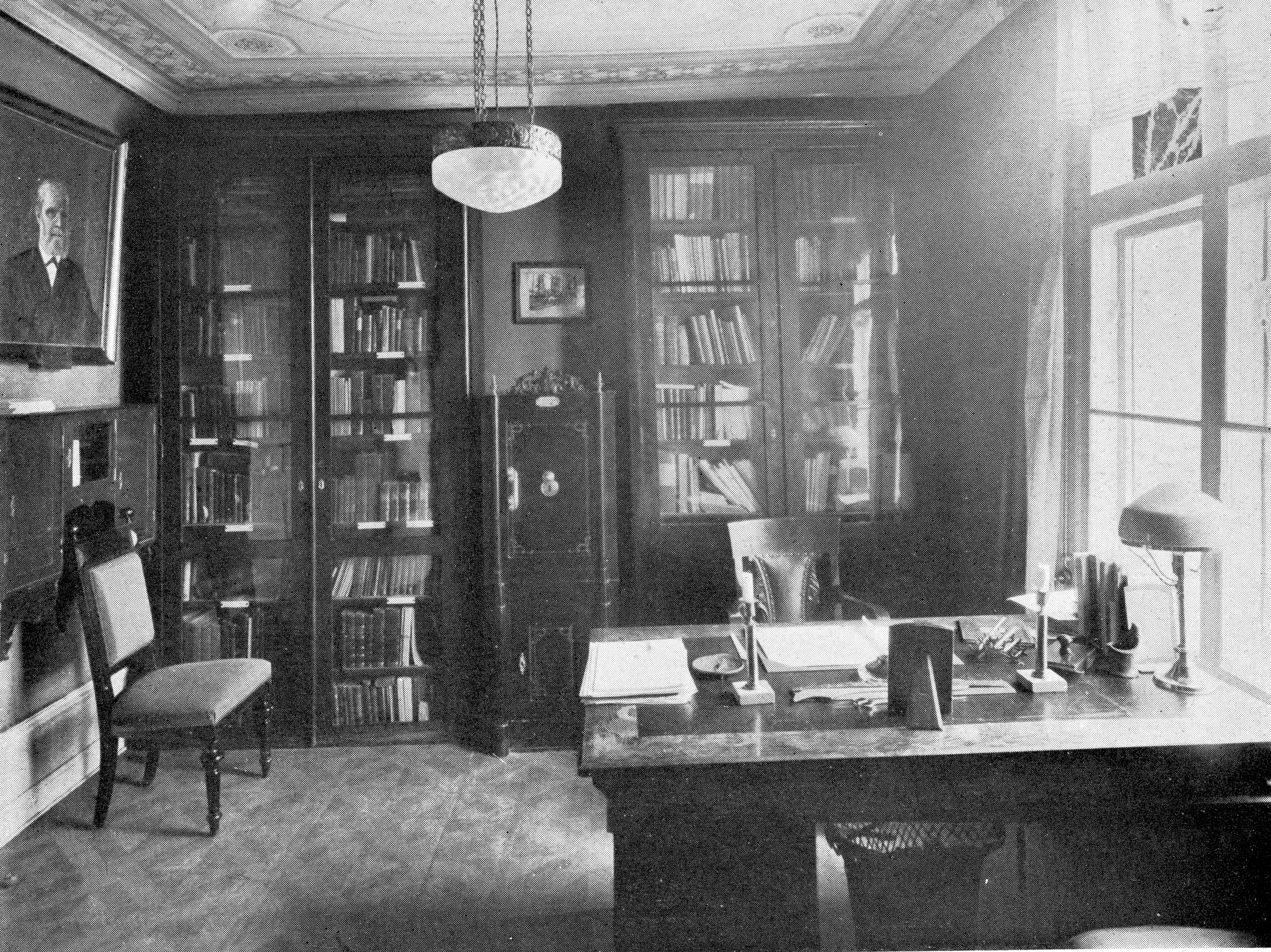 Kalmar Nation, Uppsala. First house 1913-1957. Leaders room 1915.